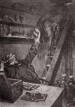 "The Sign of Four" illustrated by F.H. Townsend.